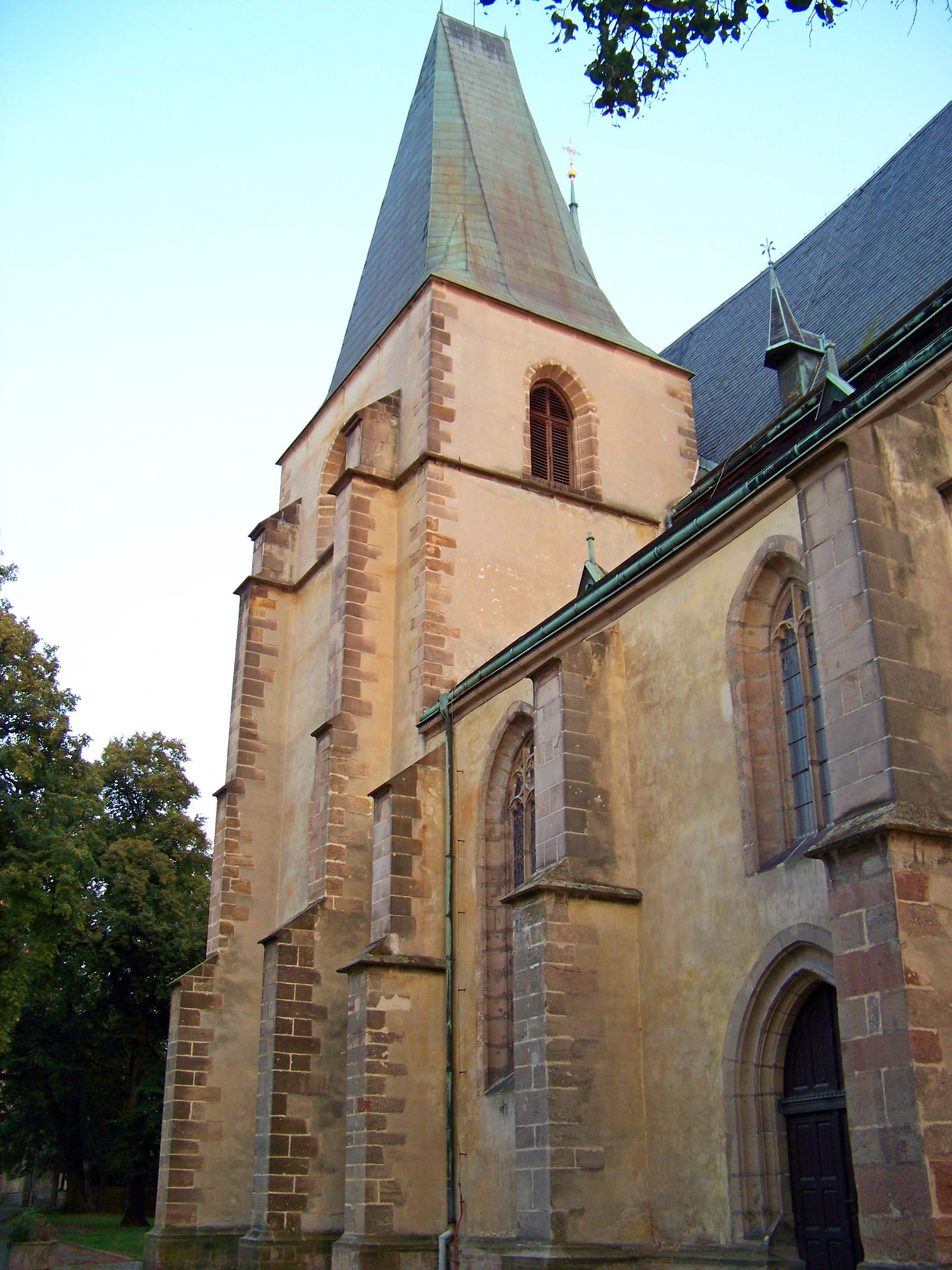 Rakovník I, Rakovník District, Central Bohemian Region, the Czech Republic. Church of Saint Bartholomew.